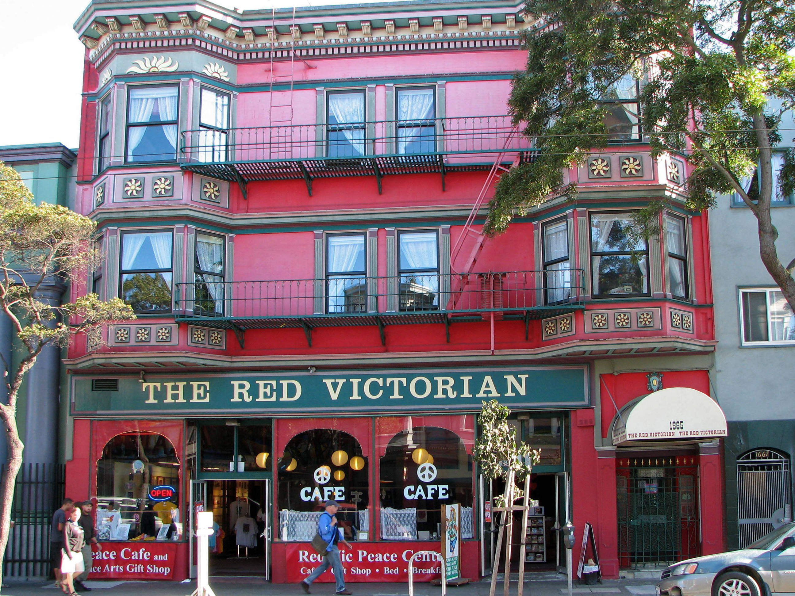 The Red Victorian Hotel, San Francisco, California, USA